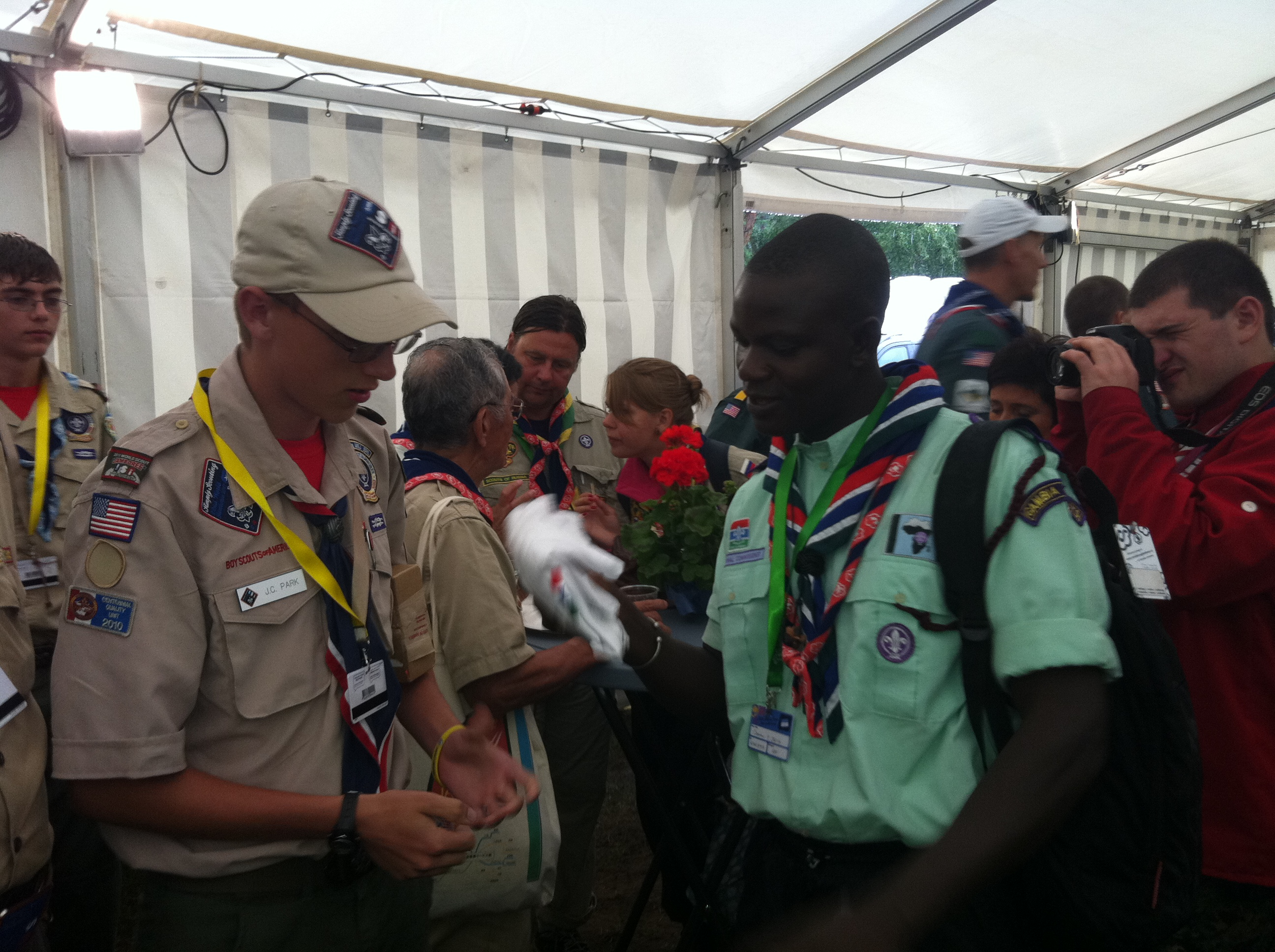 US Scout JC Park with a scout from Gambia